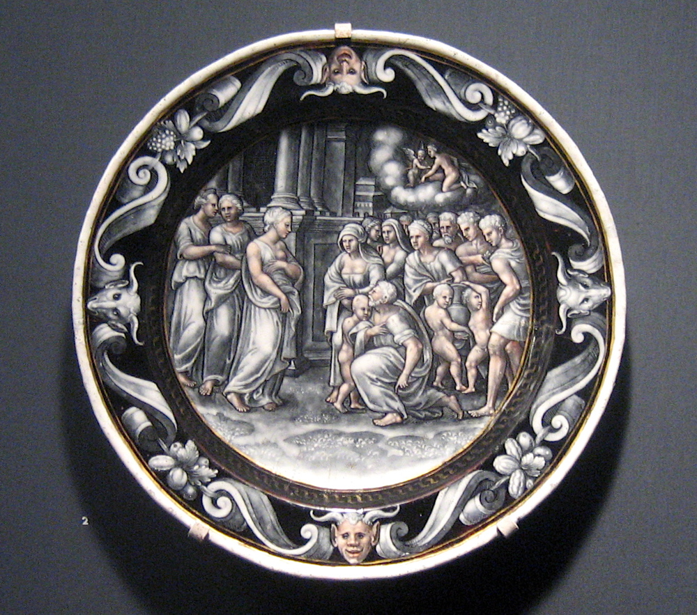 Pierre Courteys (France, Limoges, circa 1520 - before 1591) Plate: The Adoration of Psyche, 1560 Enamel: Limoges enamel, Grisaille enamel, flesh tones, and gold on copper, Diameter: 8 7/16 in. (21.4 cm) William Randolph Hearst Collection (48.2.4) Wikipedia Loves Art at the Los Angeles County Museum of Art This photo of item # 48.2.4 at the Los Angeles County Museum of Art was contributed under the team name "artifacts" as part of the Wikipedia Loves Art project in February 2009. Los Angeles County Museum of Art The original photograph on Flickr was taken by Beesnest McClain—please add a comment to the original Flickr page whenever a use has been made on Wikipedia or another project. Project galleries on Flickr: this institution, this team